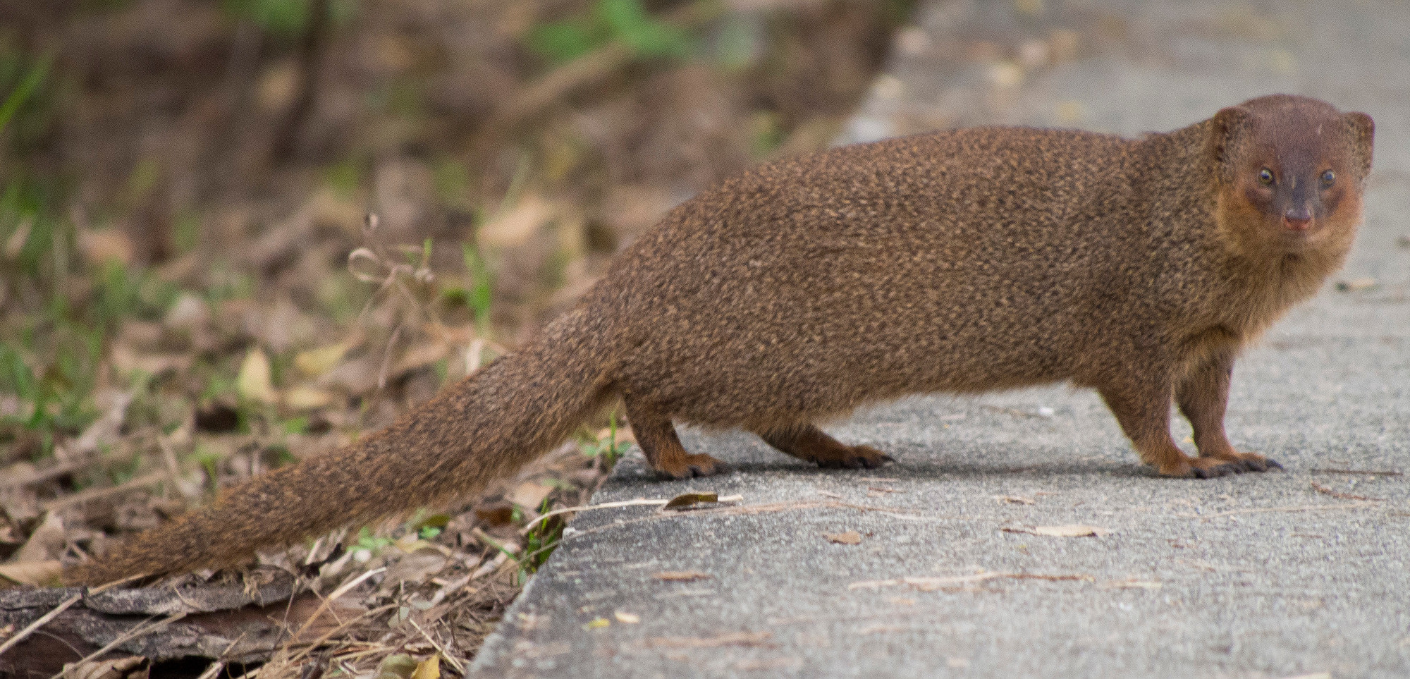 A small asian mongoose (Herpestes javanicus)